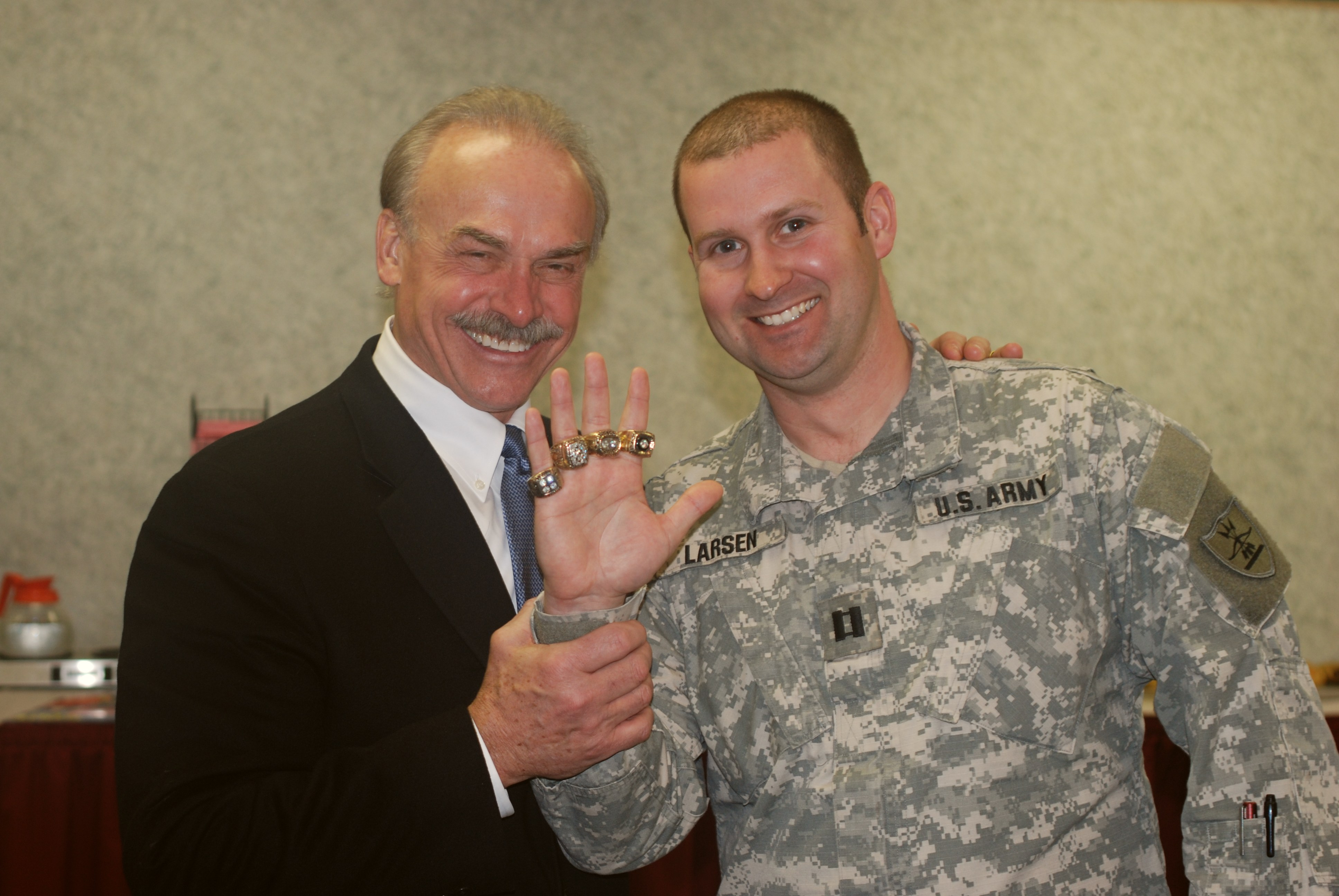 Vietnam Veteran and former Pittsburgh Steeler Rocky Bleier poses with Capt. Doug Larsen who tries on Bleier's four Super Bowl rings at the North Dakota National Guard's 2009 Safety Conference in Bismarck Jan 24. Bleier was the keynote speaker for the conference.